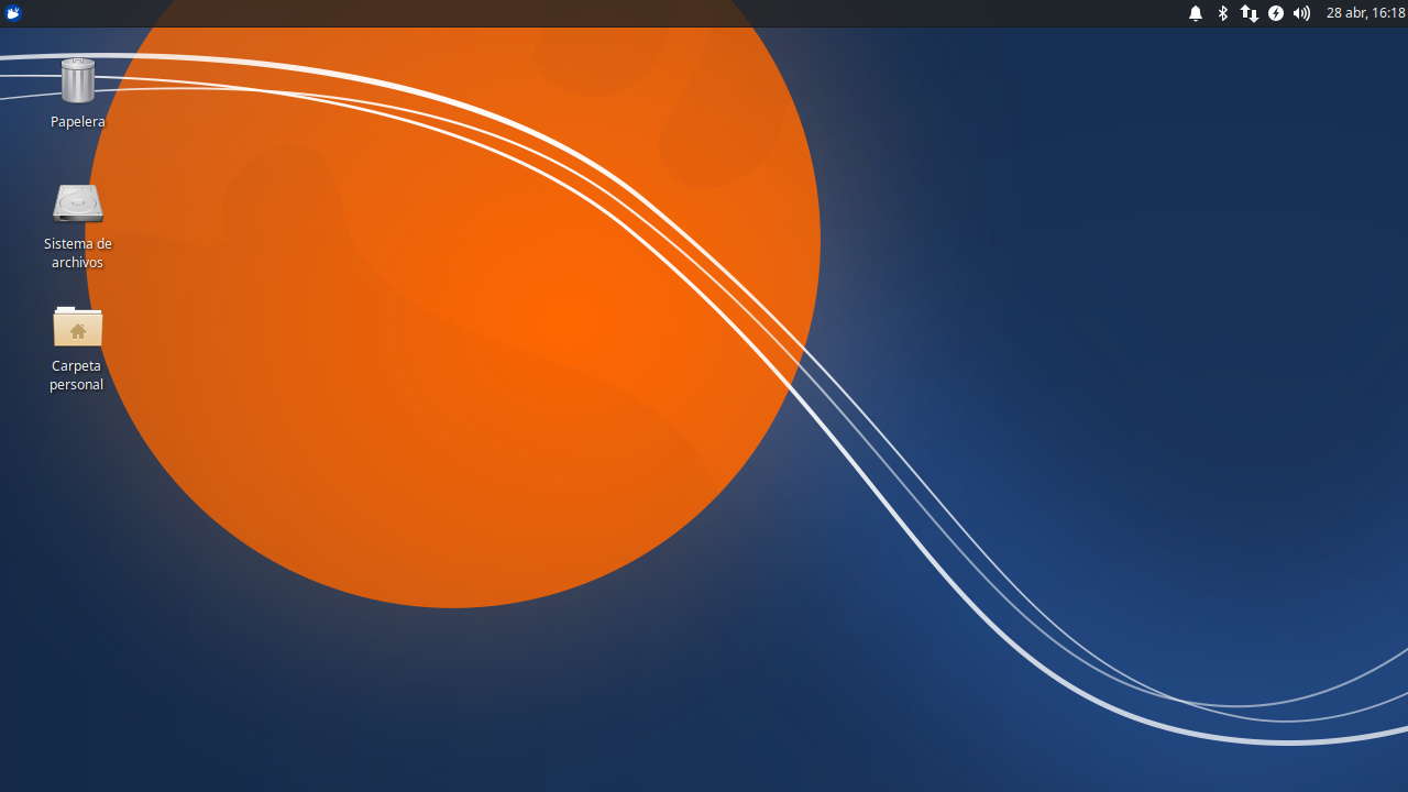 Ubuntu Disco Dingo 19.04 screenshot